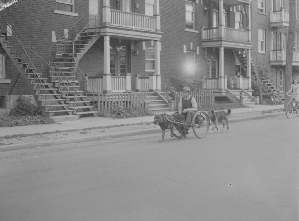 A man sitting in a sulky pulled by a dog, driving on the street Hochelaga in Montreal. A second dog is attached to the back of the sulky.